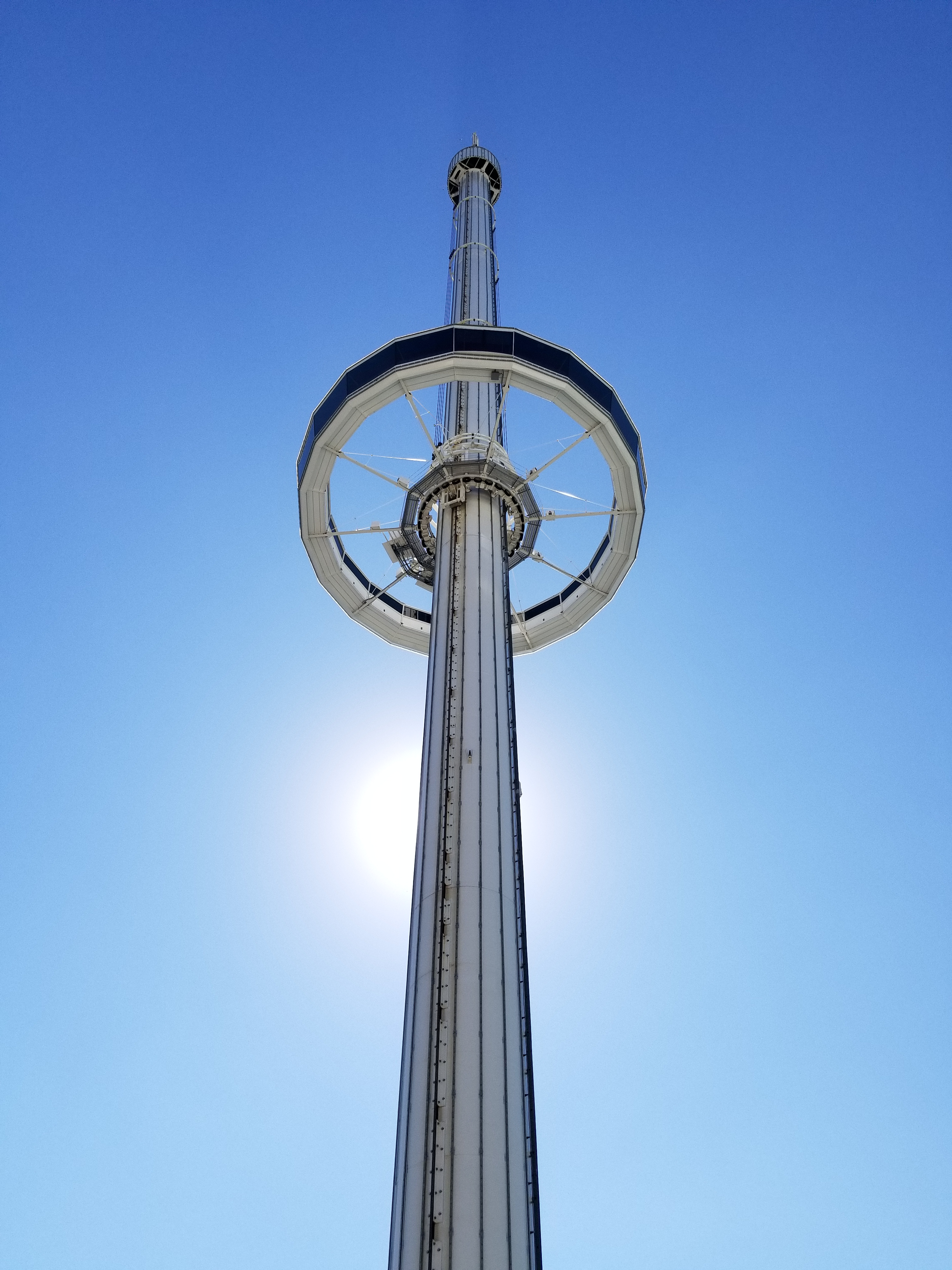 Photographed in Fair Park, Dallas, Texas.